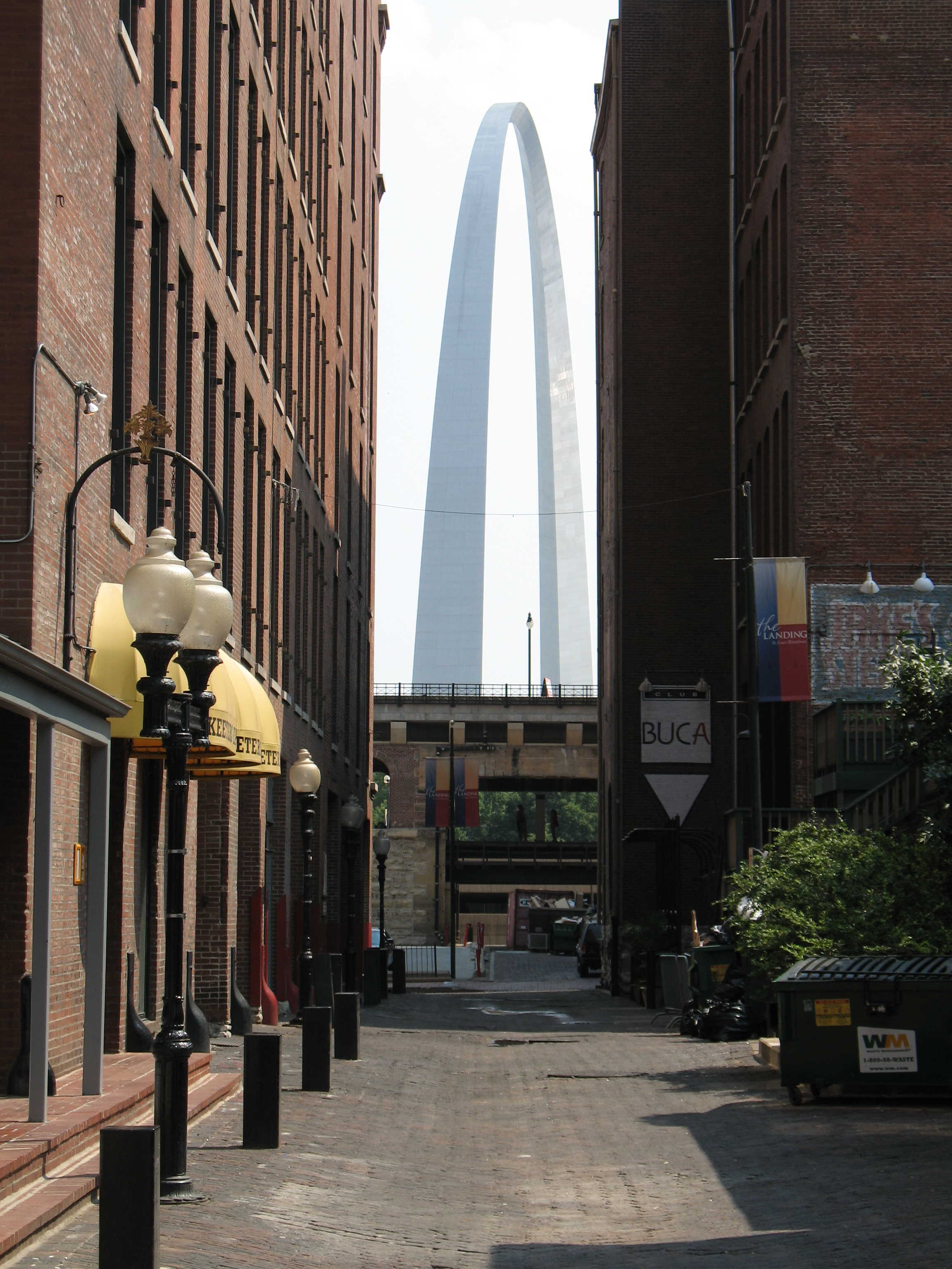 View of the Gateway Arch from Laclede's Landing historical district near downtown St. Louis. A portion of the Eads Bridge can be seen in the gap between buildings.